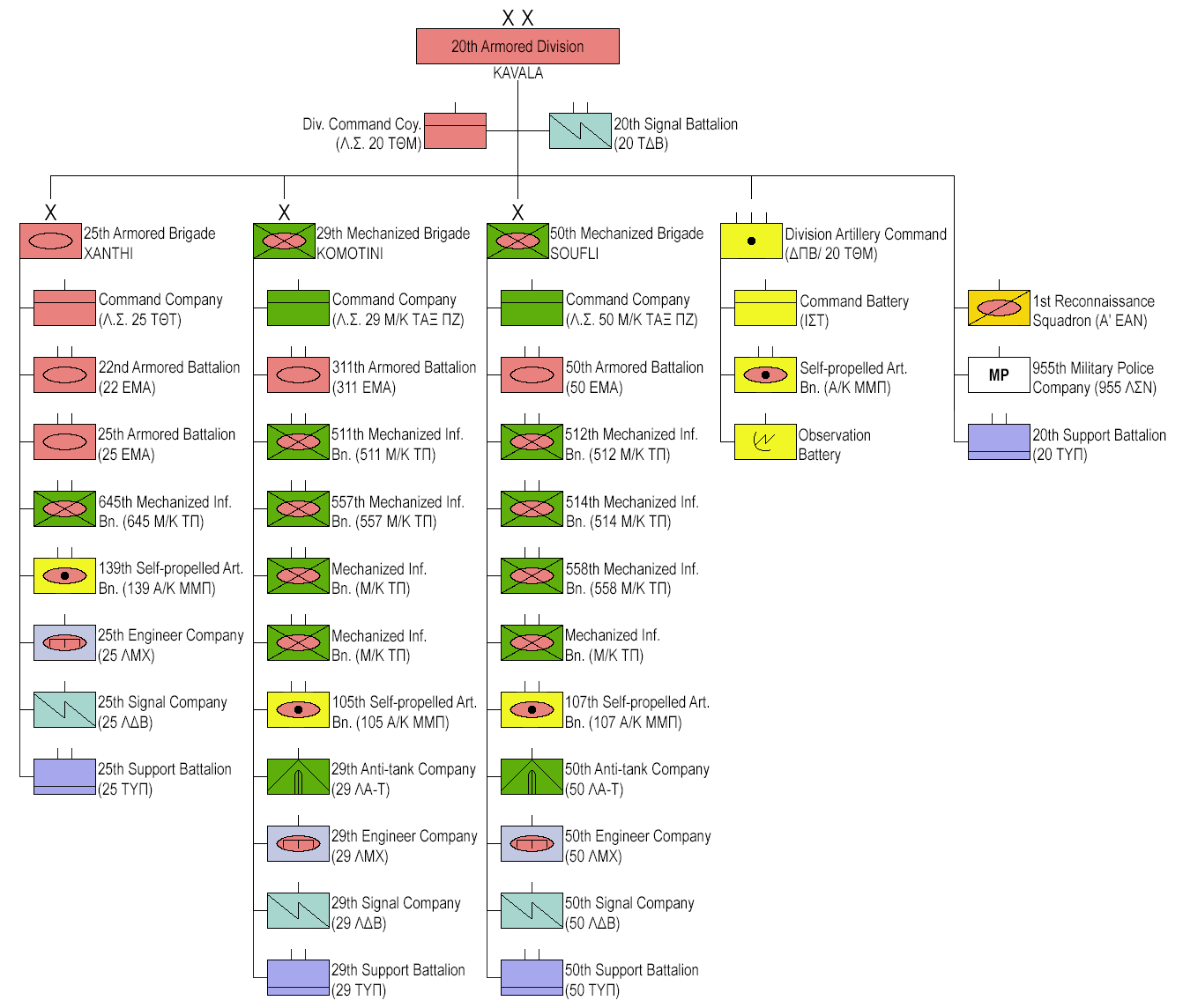 Hellenic Army 20th Armoured Division Structure